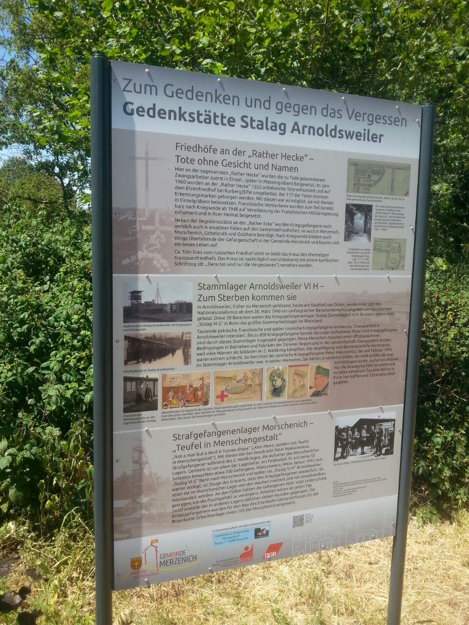 Prisoners of war from Poland, France and Russia lived in this camp during World War II. It had a capacity for 800 prisoners. A total of around 9200 prisoners went through this camp. They had to work under cruel conditions in agriculture, industry and in the lignite mines.